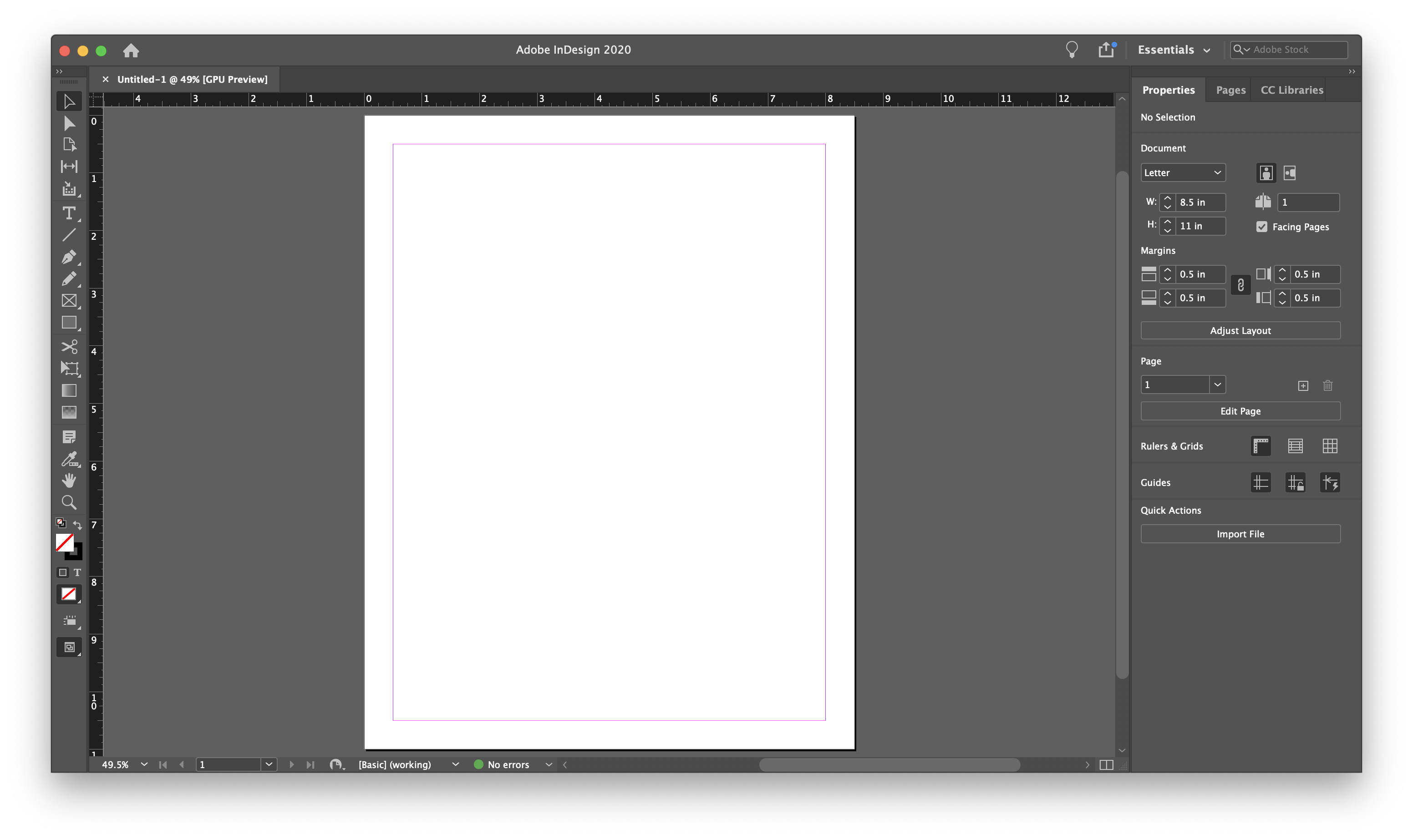 Default screen of Adobe InDesign running on macOS